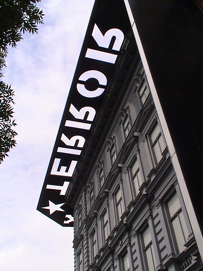 Foto: Jan Ainali